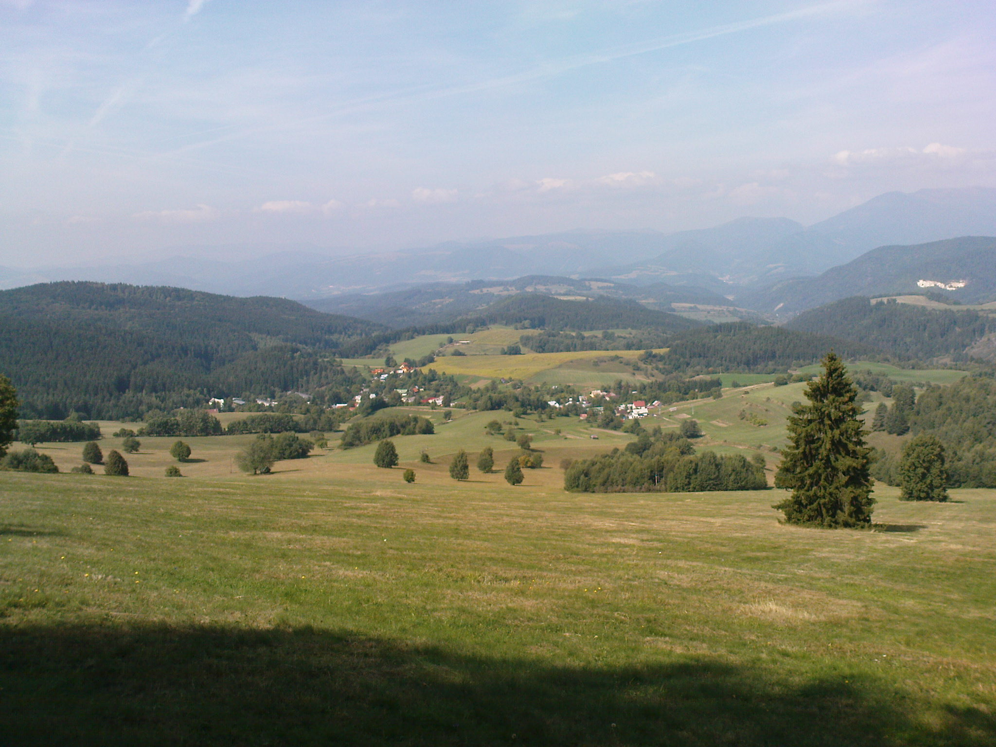 village Povraznik in central Slovakia near Banska Bystrica